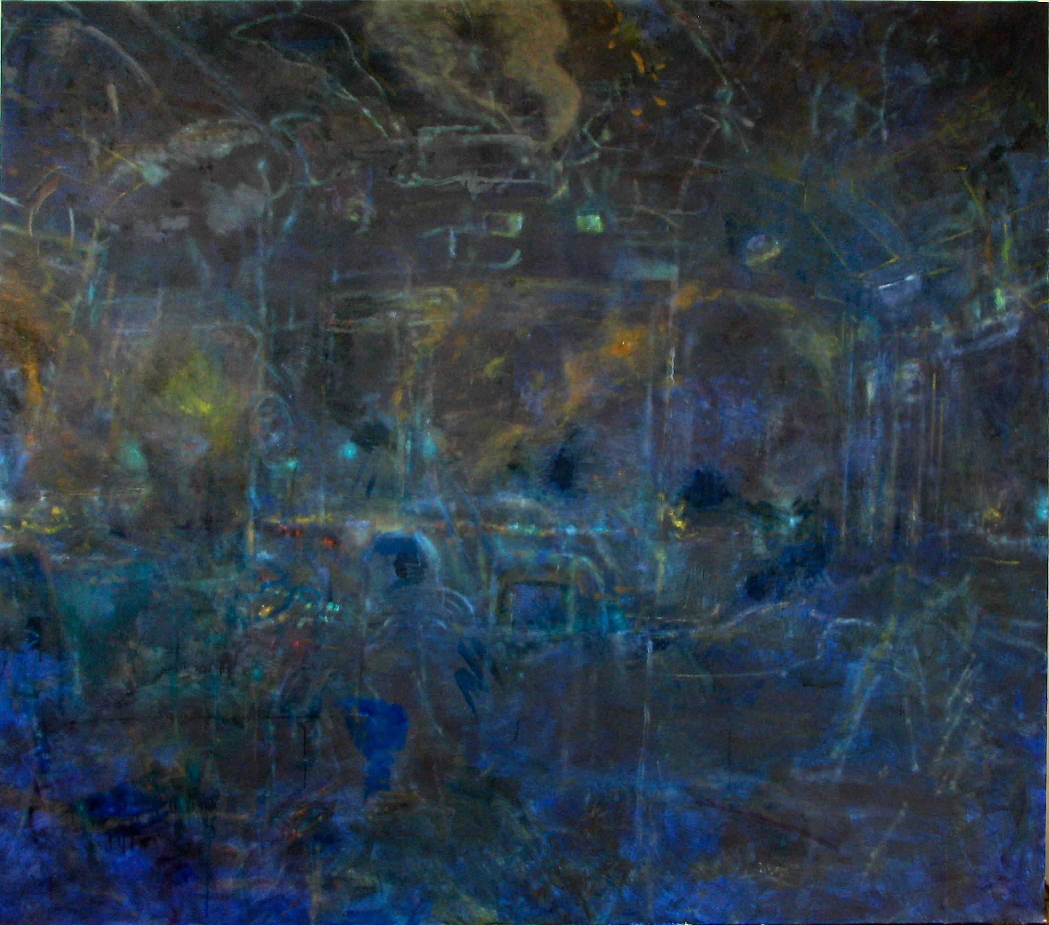 oil on canvas, 172 x 192 cm